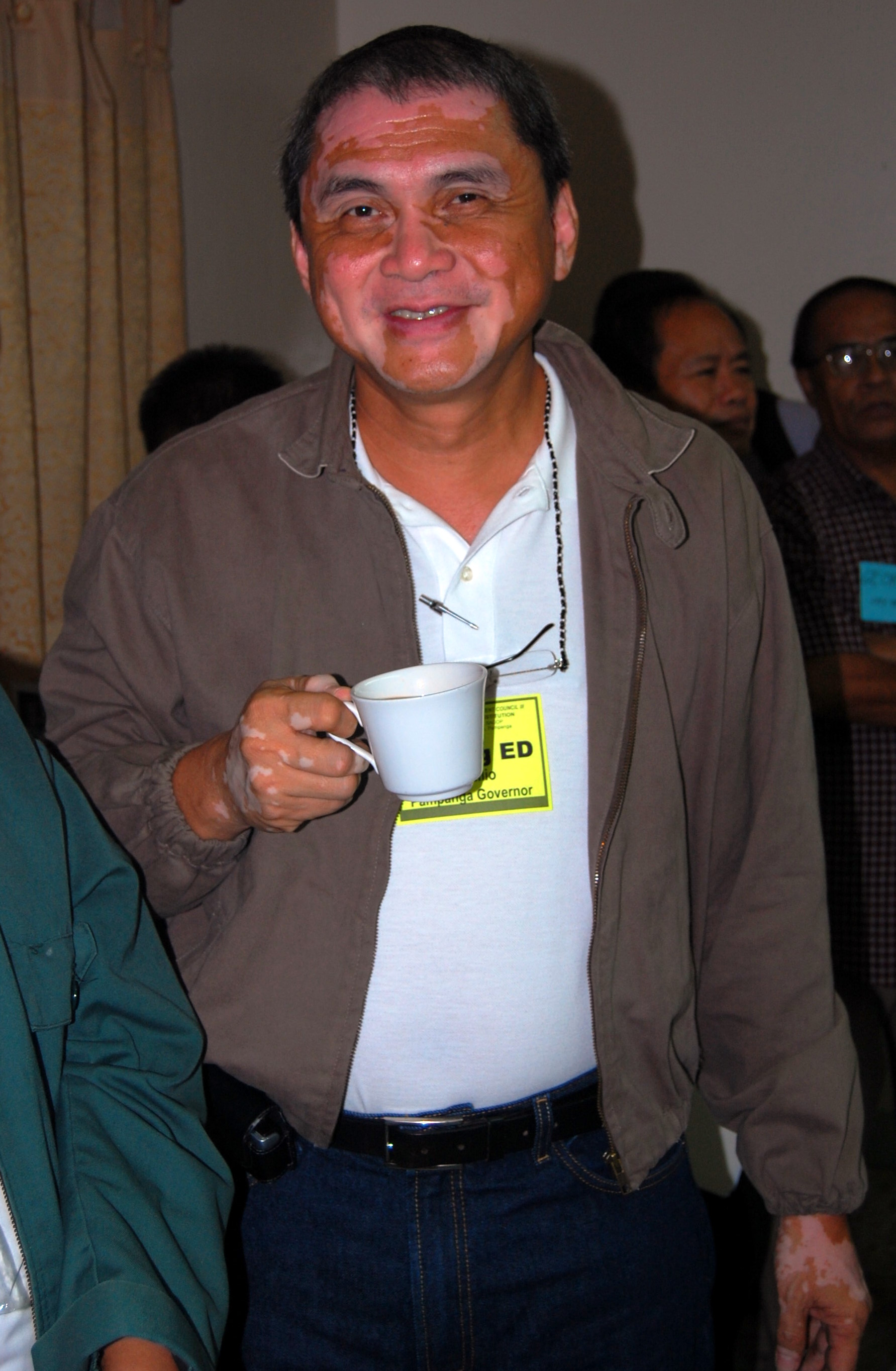 Portrait of Eddie "Among Ed" Panlilio